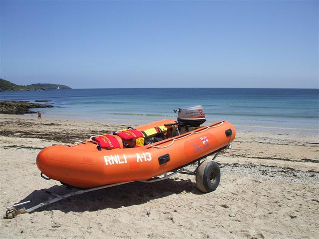 At the ready! Located at Gyllyngvase beach